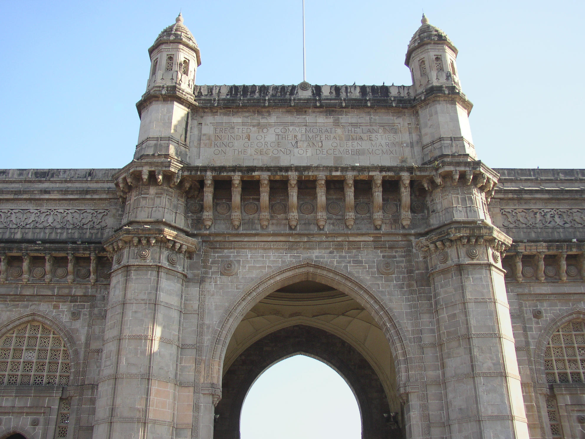 Gateway of India in Mumbai in Maharashtra, India